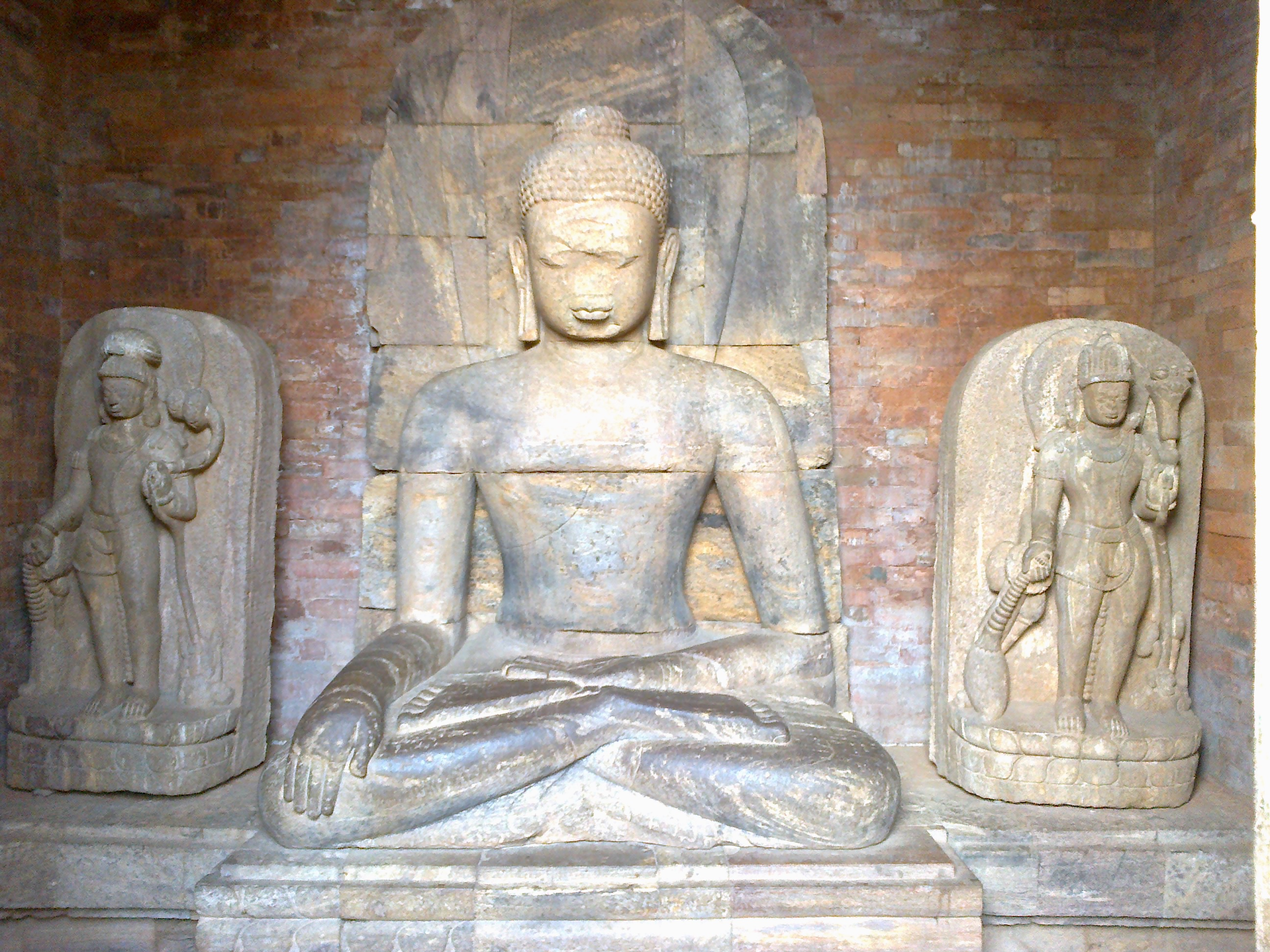 Ratnagiri Buddhist Complex, Odisha